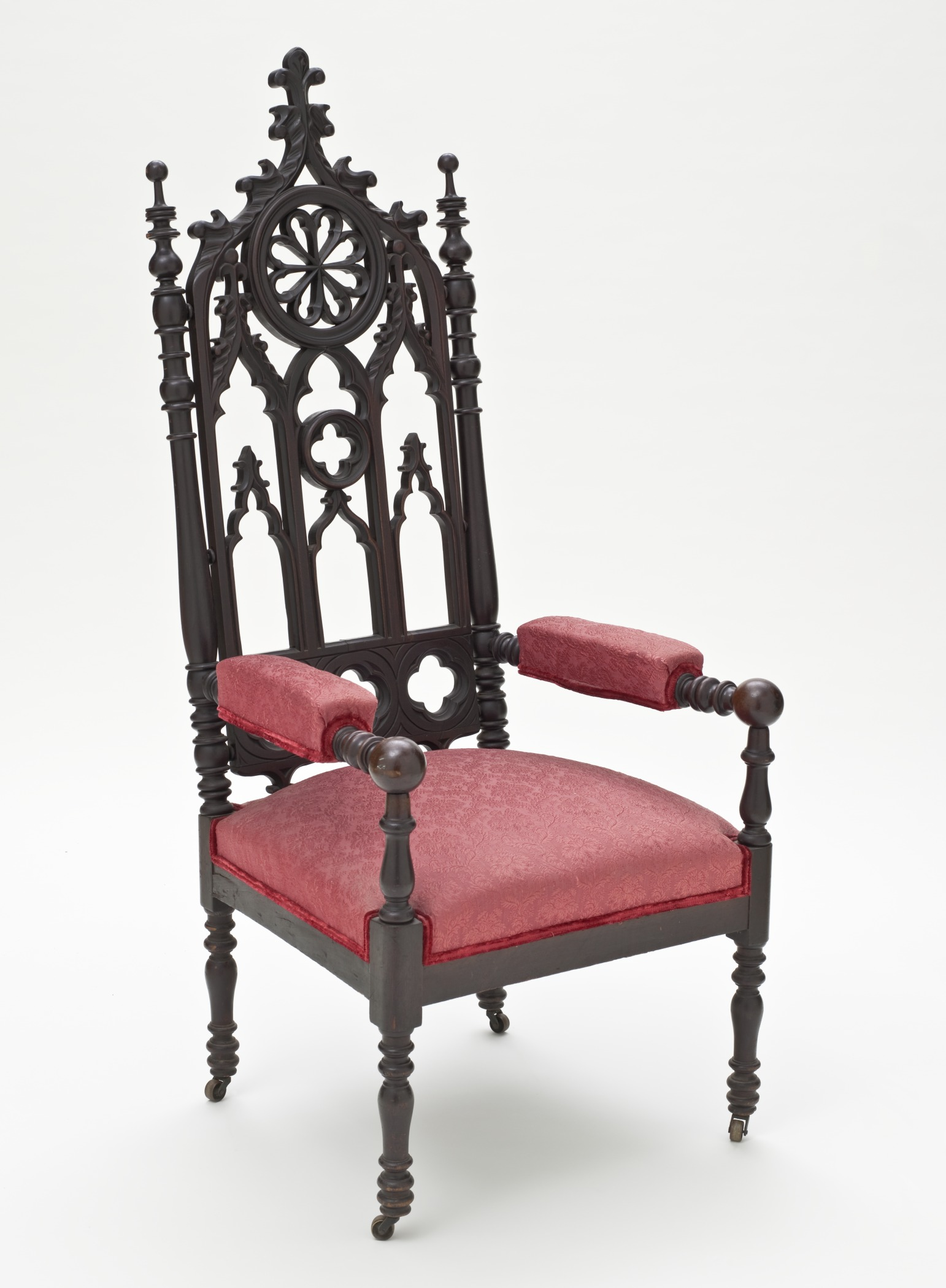 United States, probably New York City, circa 1840-1850 Furnishings; Furniture Walnut 60 1/4 x 26 x 25 1/2 in. (153.04 x 66.04 x 64.77 cm) Gift of Christopher Monkhouse in honor of Thomas Michie (M.2008.268) Decorative Arts and Design